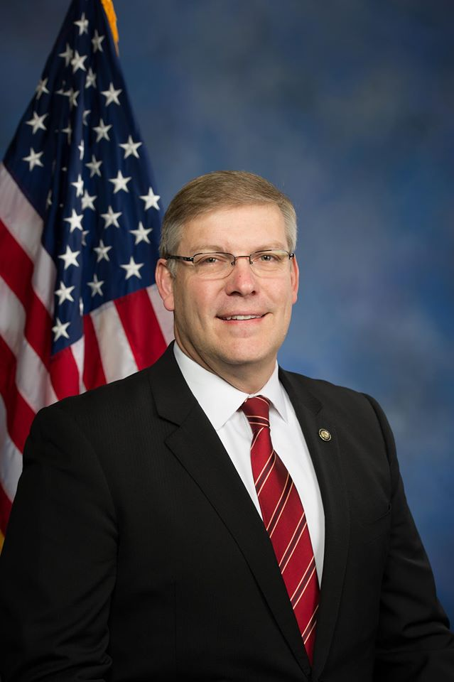 Congressman Barry Loudermilk, a Constitutional Conservative, represents Georgia’s 11th Congressional District, which includes all of Bartow and Cherokee counties as well as portions of Cobb and Fulton counties.